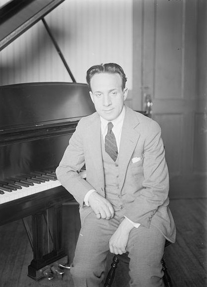 Nathaniel Shilkret (1895-1982), American composer and conductor, seated at piano.